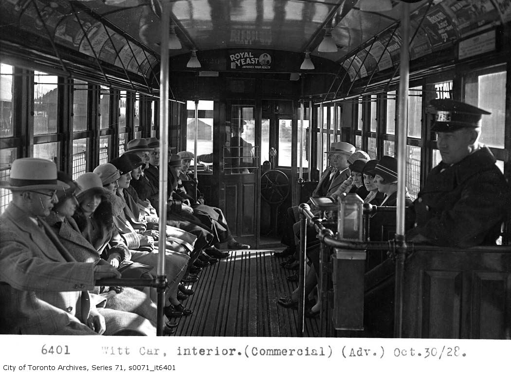 Photographer: Alfred Pearson October 30, 1928 City of Toronto Archives This image is available from the City of Toronto Archives, listed under the archival citation Series 71, Item 6401. This tag does not indicate the copyright status of the attached work. A normal copyright tag is still required. See Commons:Licensing for more information.